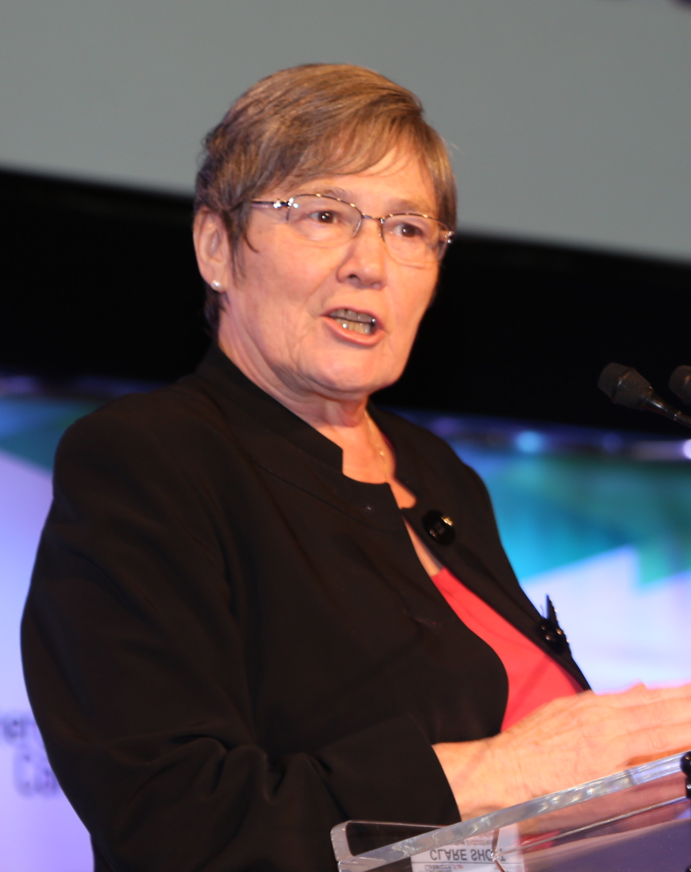 Clare Short delivering her Feature Address at the EITI Energy Conference 2015 in Port-of-Spain, Trinidad and Tobago.